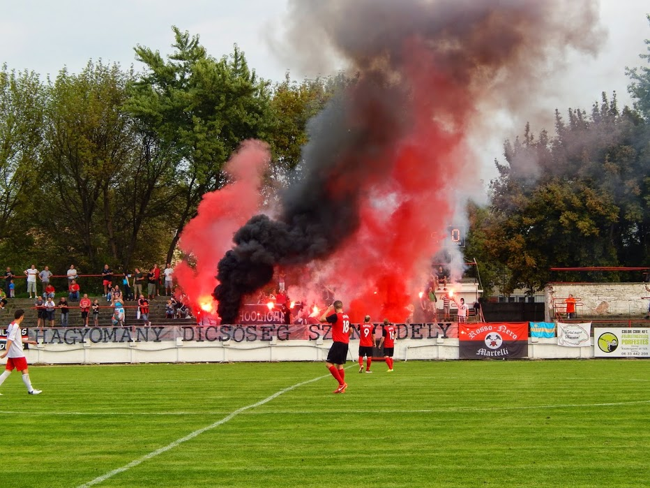 Celebration of the Centenary by ultras and fans